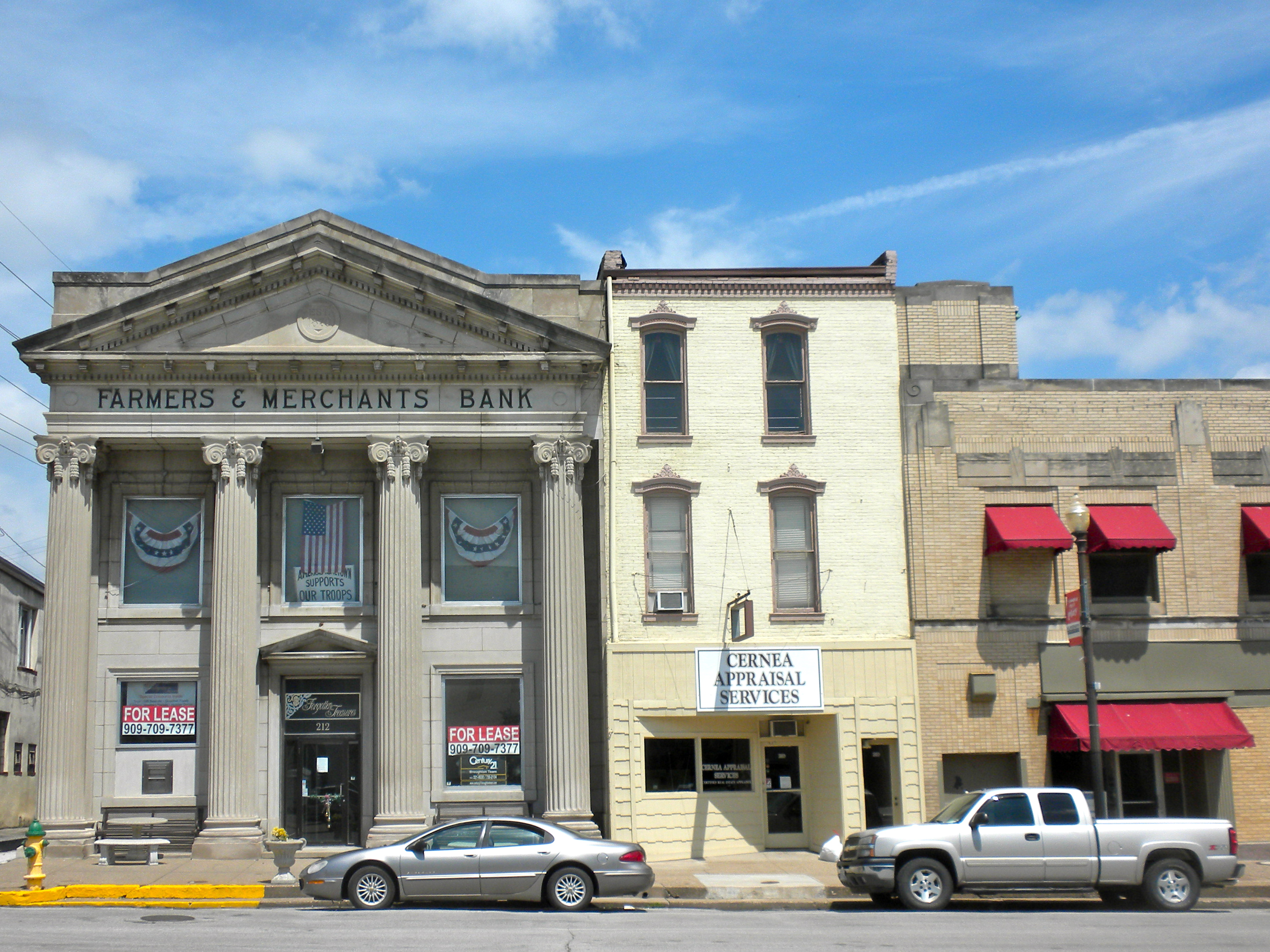 Broadway District in Hannibal, Missouri, on the NRHP since August 1, 1986. The Historic District is roughly bounded by S. Main, Broadway, and S. Third Sts. in Hannibal. These particular buildings are on the north side of Broadway, a block west of Main, near the center of the district.